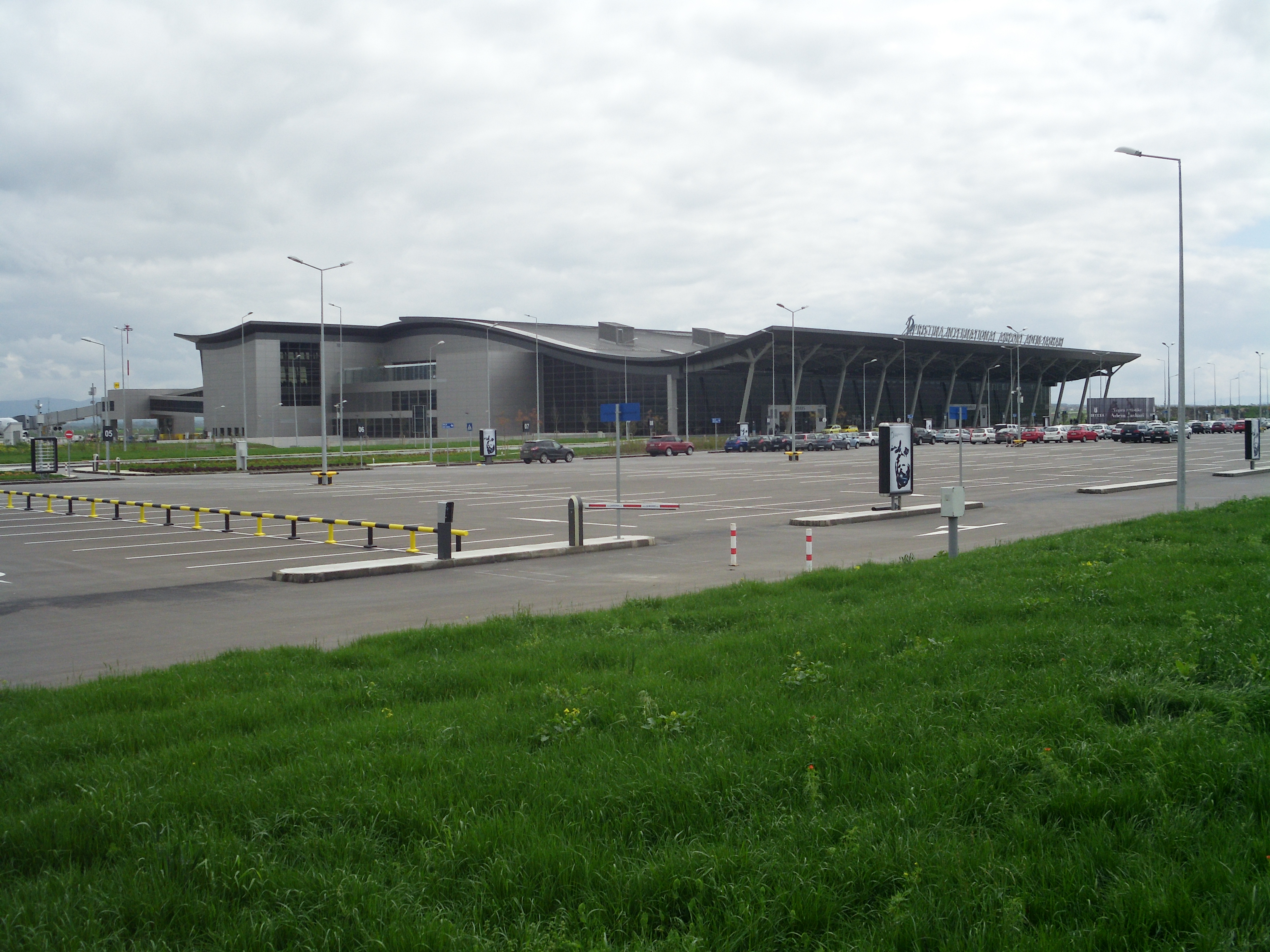 The new terminal of Pristina International Airport in Kosovo.